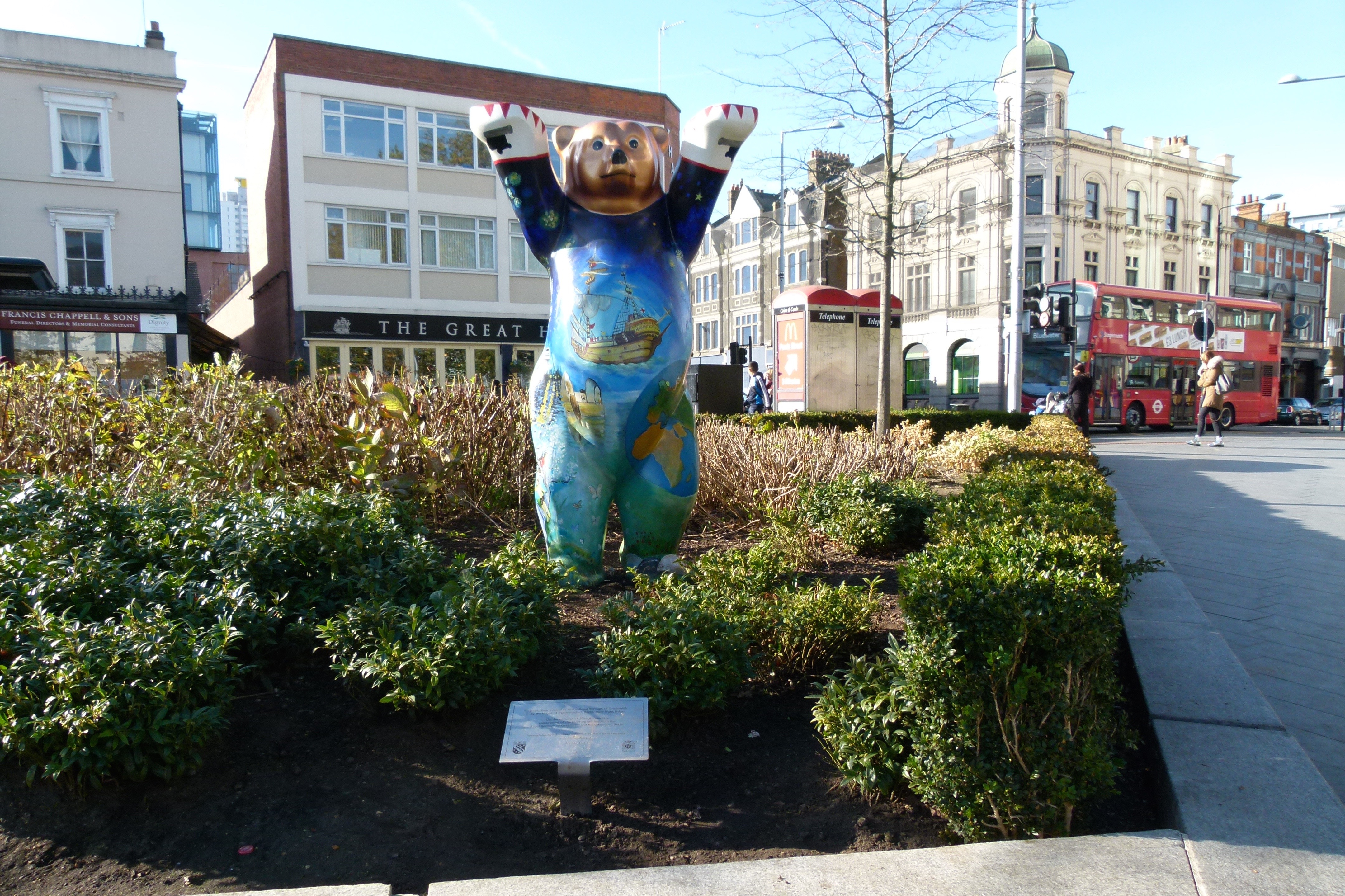 Berlin Bear, public sculpture in General Gordon Square in central Woolwich, South East London, UK. The statue was designed by Michele Petit-Jean after a design by pupils of Eltham Hill School and erected to celebrate the 50th anniversary of friendship between the Royal Borough of Greenwich and the Berlin borough of Reinickendorf.